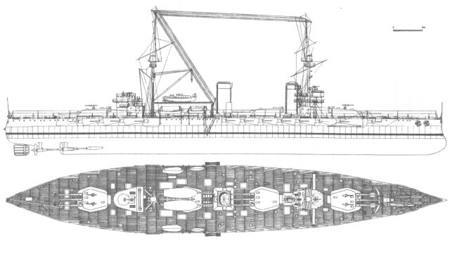 Schema of battleship Imperator Nikolai I, Demokratiya, Soborna Ukraina.